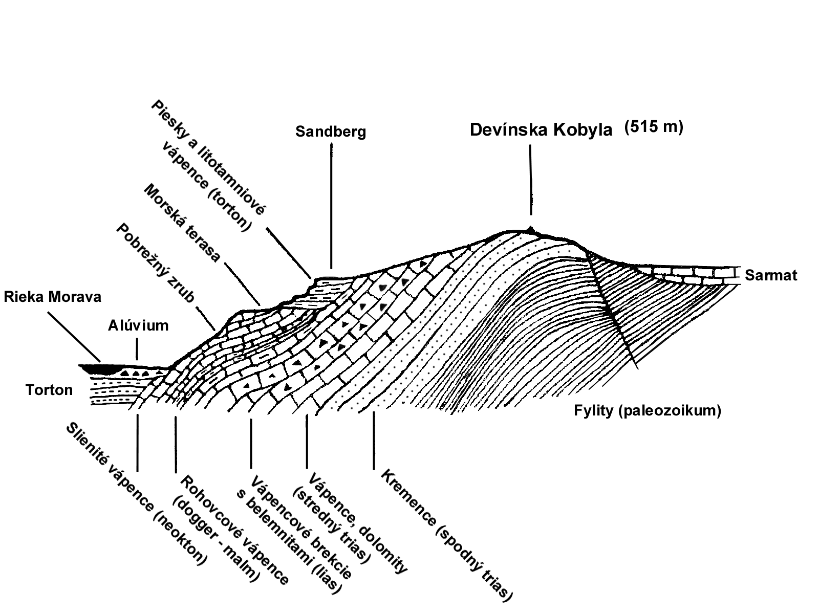 Geological profile of Sandberg, Devínska Nová Ves, Bratislava, Slovakia